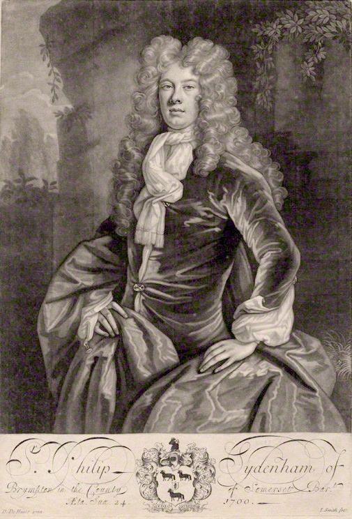 Sir Philip Sydenham, 3rd Baronet (1676–1739); mezzotint 363 × 249 mm (14.29 × 9.8 in)